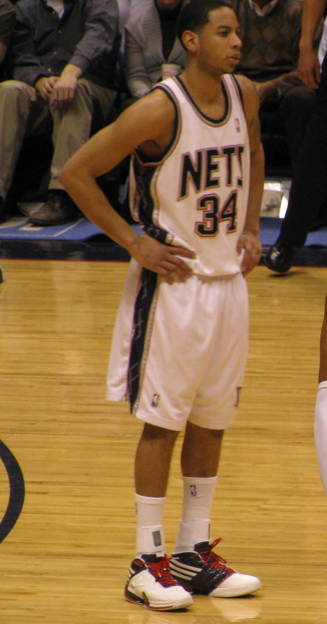 Devin Harris playing with the New Jersey Nets